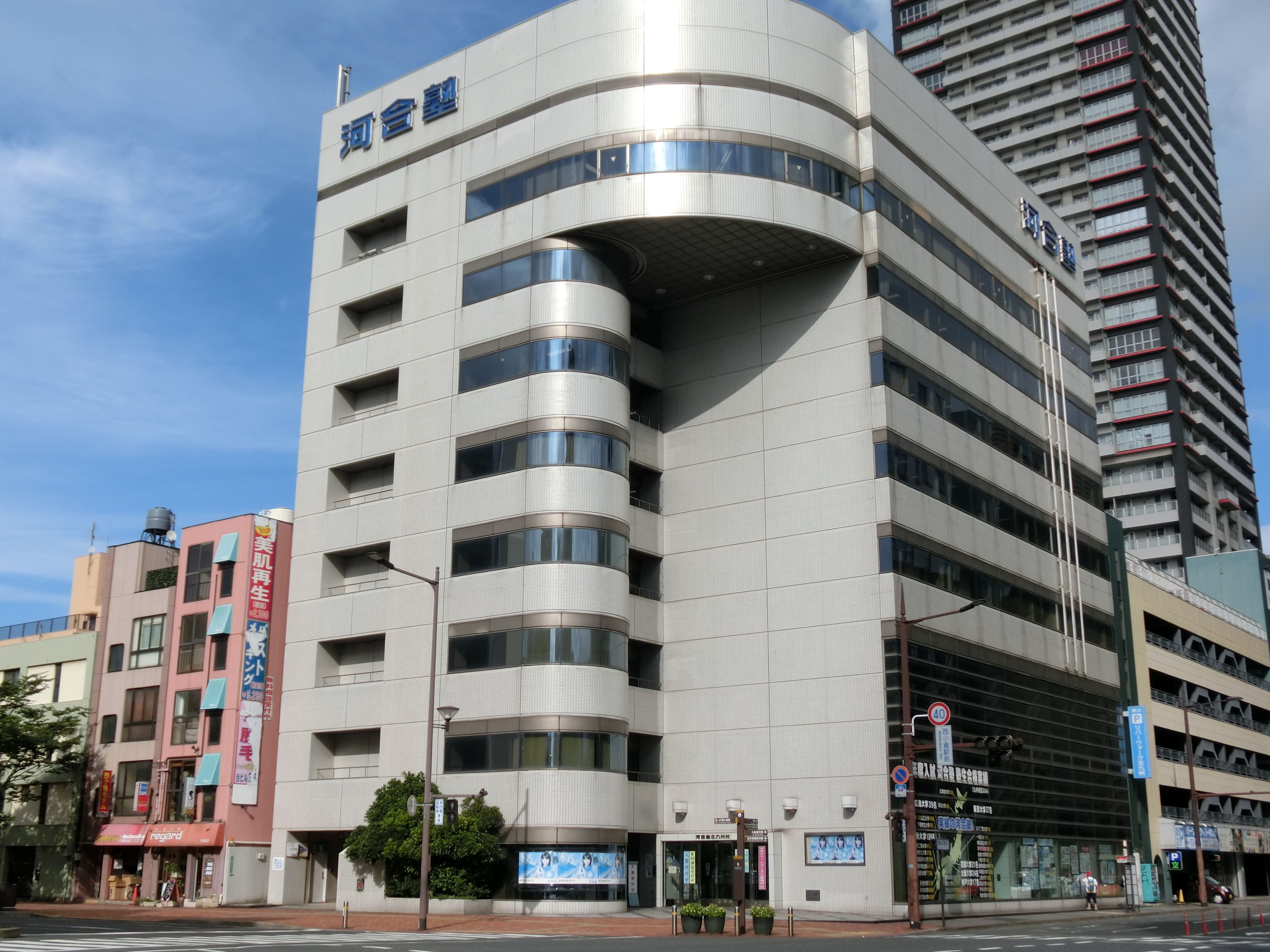 Kawaijuku Kitakyushu School